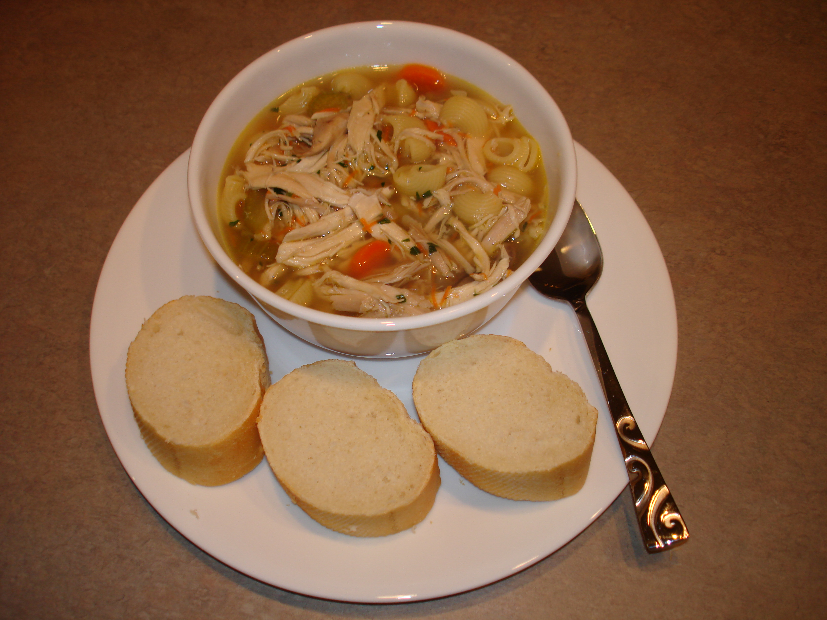 I usually am such a cheater when it comes to any soup that involves chicken. I'll just thaw some boneless skinless breasts from my freezer, buy a couple cans of chicken broth, and just call it a day. Not with this soup! Everything is 100% from scratch, using a complete chicken, fresh herbs, everything. I went so far as to build the chicken stock base with vegetables, the chicken, and herbs (each cooked in their own hand made cheesecloth sacks), let it boil until the chicken is falling off the bones- then remove everything, filter the broth through two layer of cheese cloth, freeze the broth to remove the layer of fat that forms to make it as close to fat-free as possible... THEN, re-heated the broth, picked all the worthwhile meat off the bones, threw that back in the broth, chopped up all new vegetables, cooked those in the broth... and a bunch of other stuff I am sure I'm forgetting. This soup was more or less a two day project, and it was worth every second.